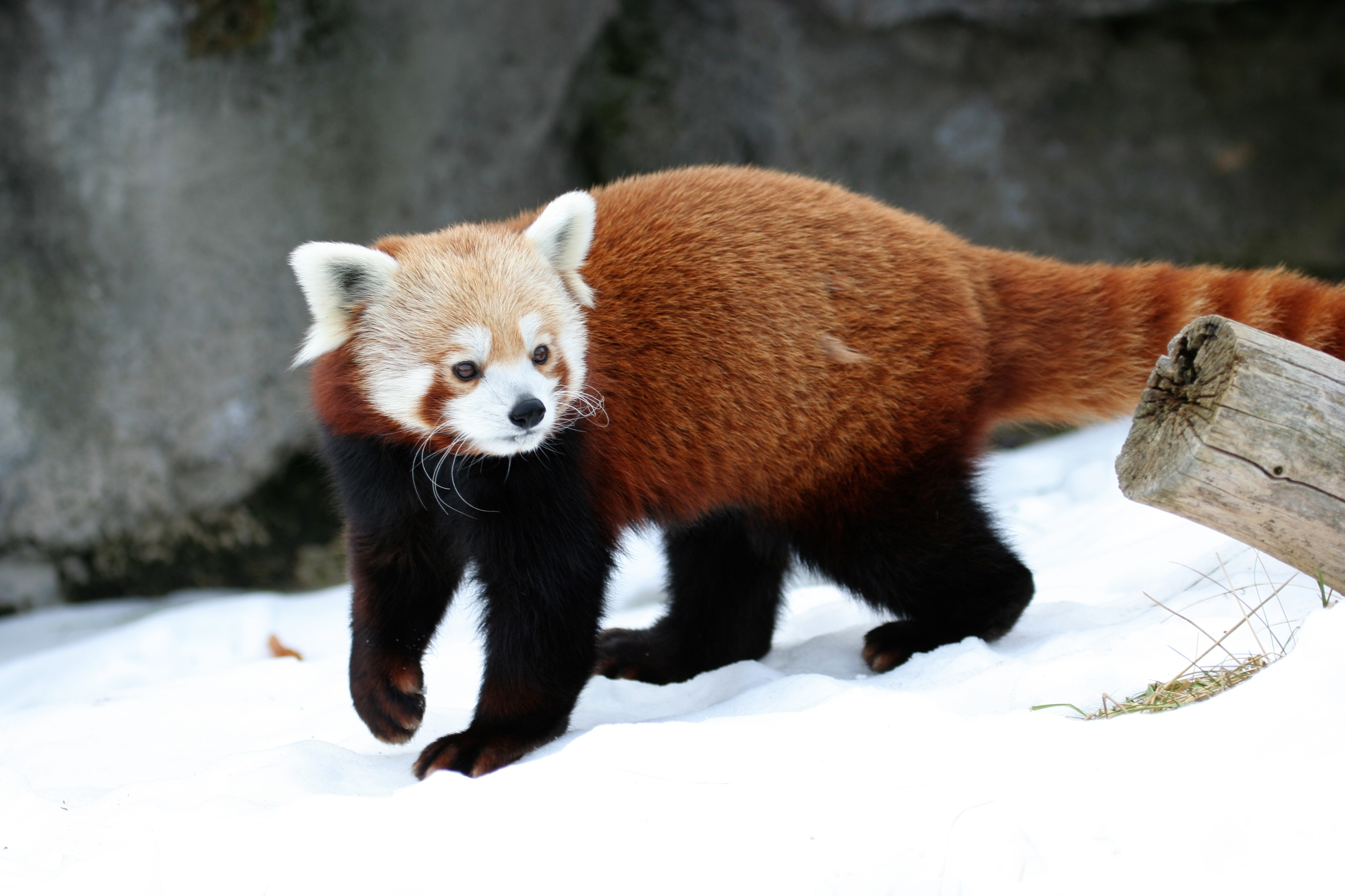 Red Panda (Ailurus fulgens) at the Rosamond Gifford Zoo, Syracuse, New York.